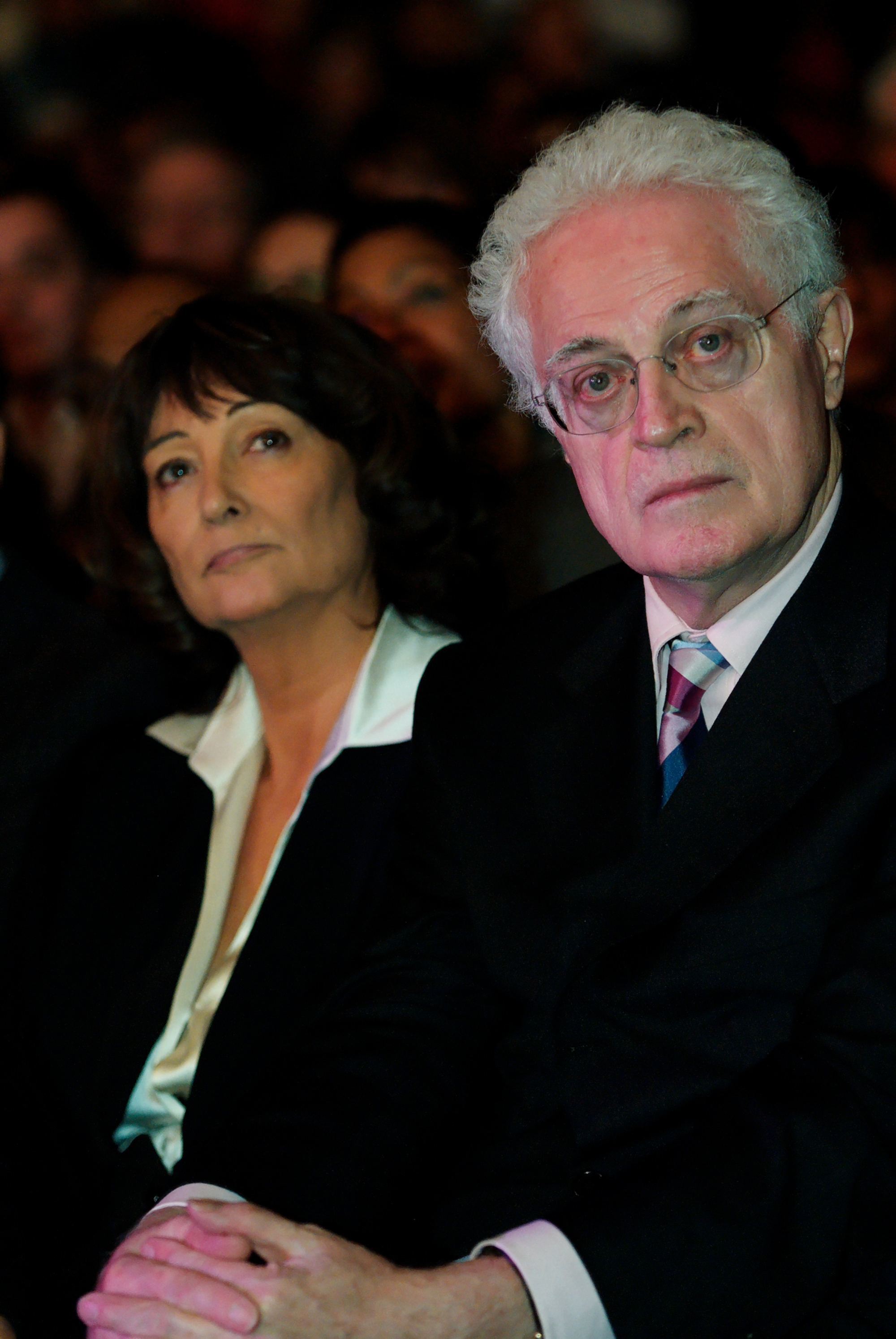 Lionel Jospin and his wife, Sylviane Agacinski. Political rally on February 27, 2008 at the Zenith (Paris) for Bertrand Delanoë's campaign in the 2008 Paris town elections.